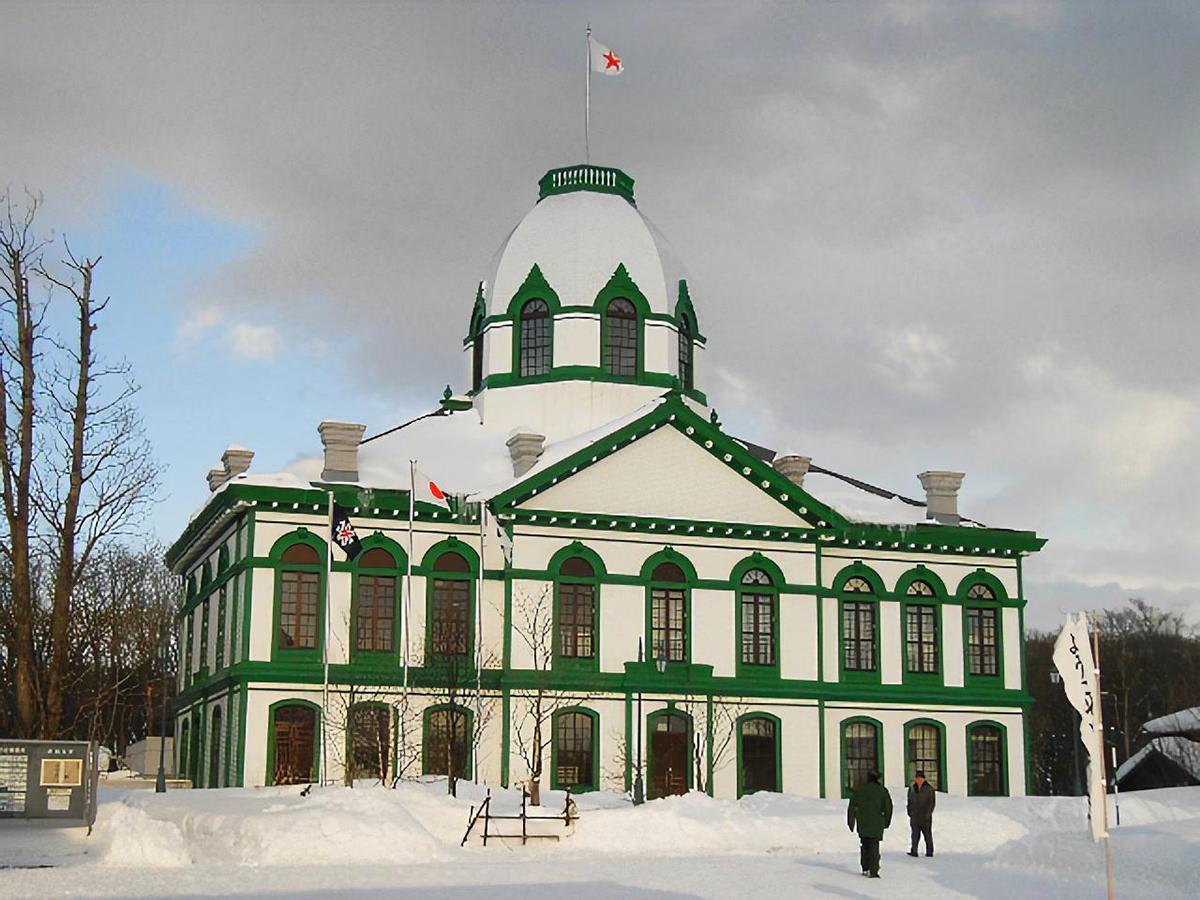 Restoration of the main office building of Kaitakushi